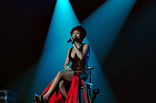 Asia's Soul Siren Nina, performing live at the ASAP Sessionistas 2009 concert in Cebu City, Philippines. ASAP Sessionistas Live in Cebu! October 23, 2009, Friday, 8pm Pacific Grand Ballroom Waterfront Cebu City Hotel and Casino Note: "thesinjin" logo was digitally altered/blocked to gain focus on the main image, but it doesn't affect the whole photo. The photo is still credited to its original author "thesinjin."